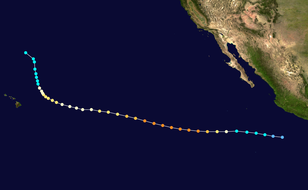 Track map of Hurricane Fernanda of the 1993 Pacific hurricane season. The points show the location of the storm at 6-hour intervals. The colour represents the storm's maximum sustained wind speeds as classified in the Saffir-Simpson Hurricane Scale (see below), and the shape of the data points represent the nature of the storm, according to the legend below. Saffir–Simpson scale Tropical depression≤38 mph≤62 km/h Category 3111–129 mph178–208 km/h Tropical storm39–73 mph63–118 km/h Category 4130–156 mph209–251 km/h Category 174–95 mph119–153 km/h Category 5≥157 mph≥252 km/h Category 296–110 mph154–177 km/h Unknown Storm typeTropical cycloneSubtropical cycloneExtratropical cyclone / Remnant low / Tropical disturbance